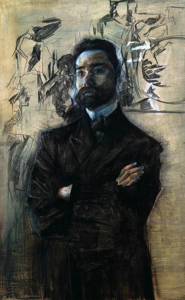 This is the last painting by Vrubel, he became blind when working on it